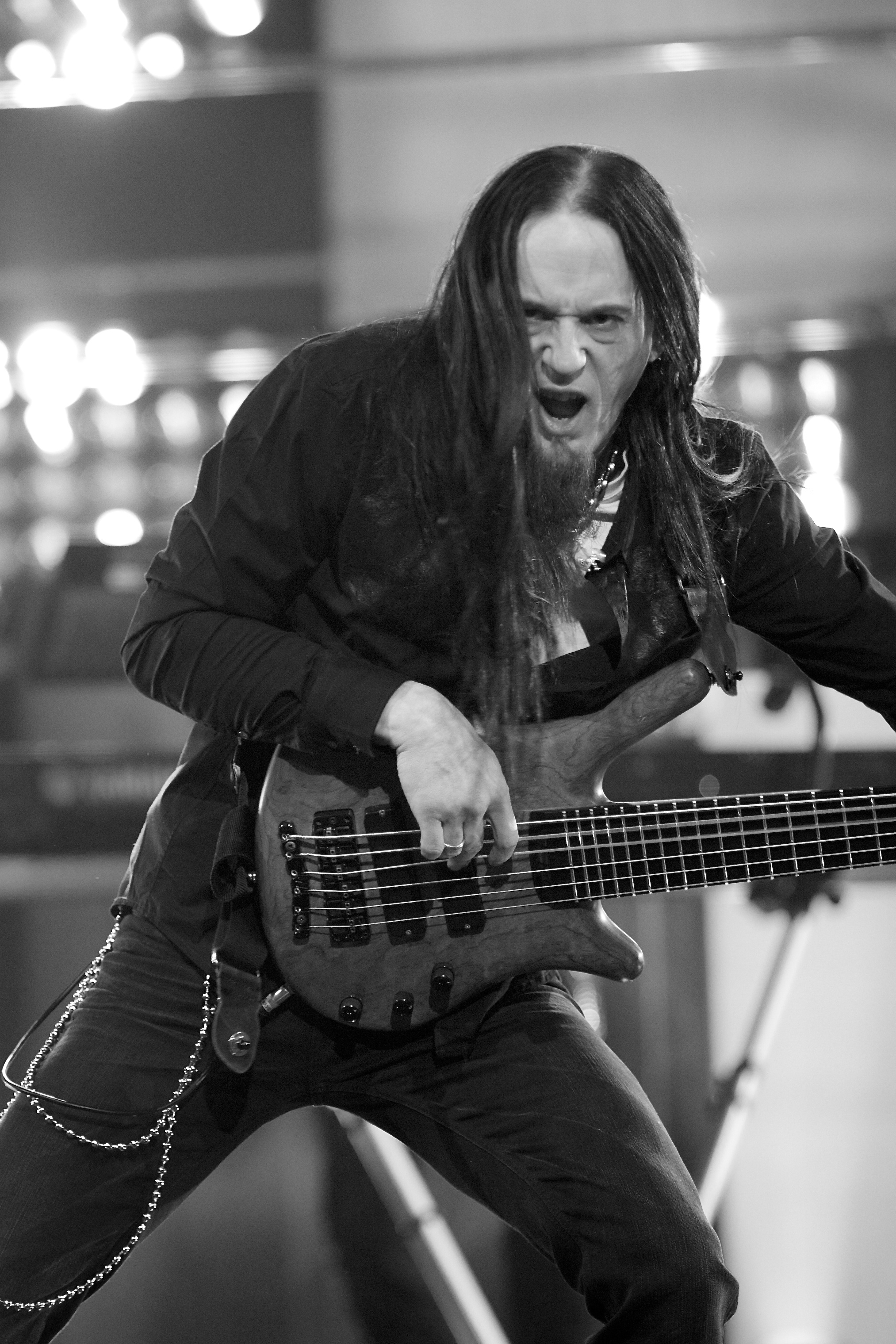 Memnoch, bassist of Susperia.